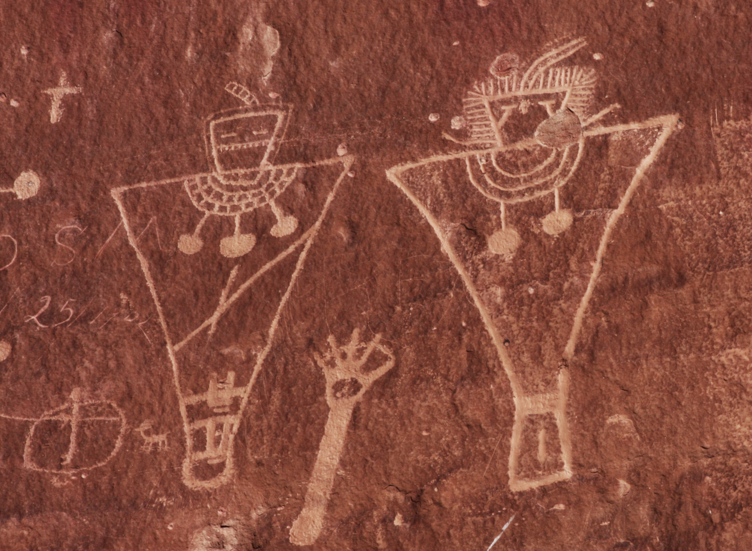 Fremont Culture petroglyphs, located east of Green River, Utah. These particular drawing are from around 600 A.D. (map location is not exact)